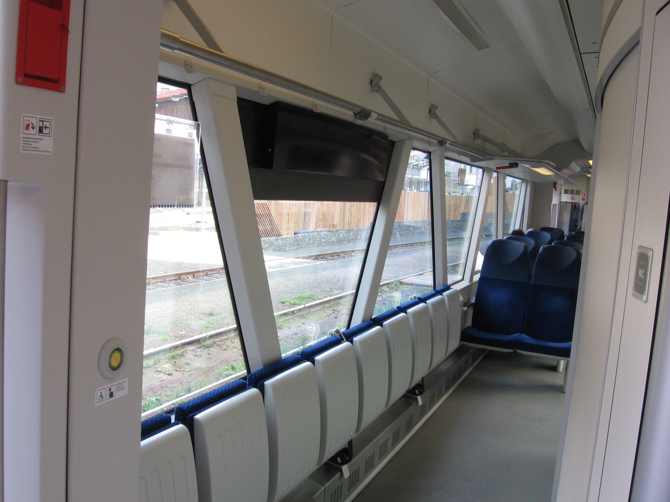 Interior of ČD railcar 840.010